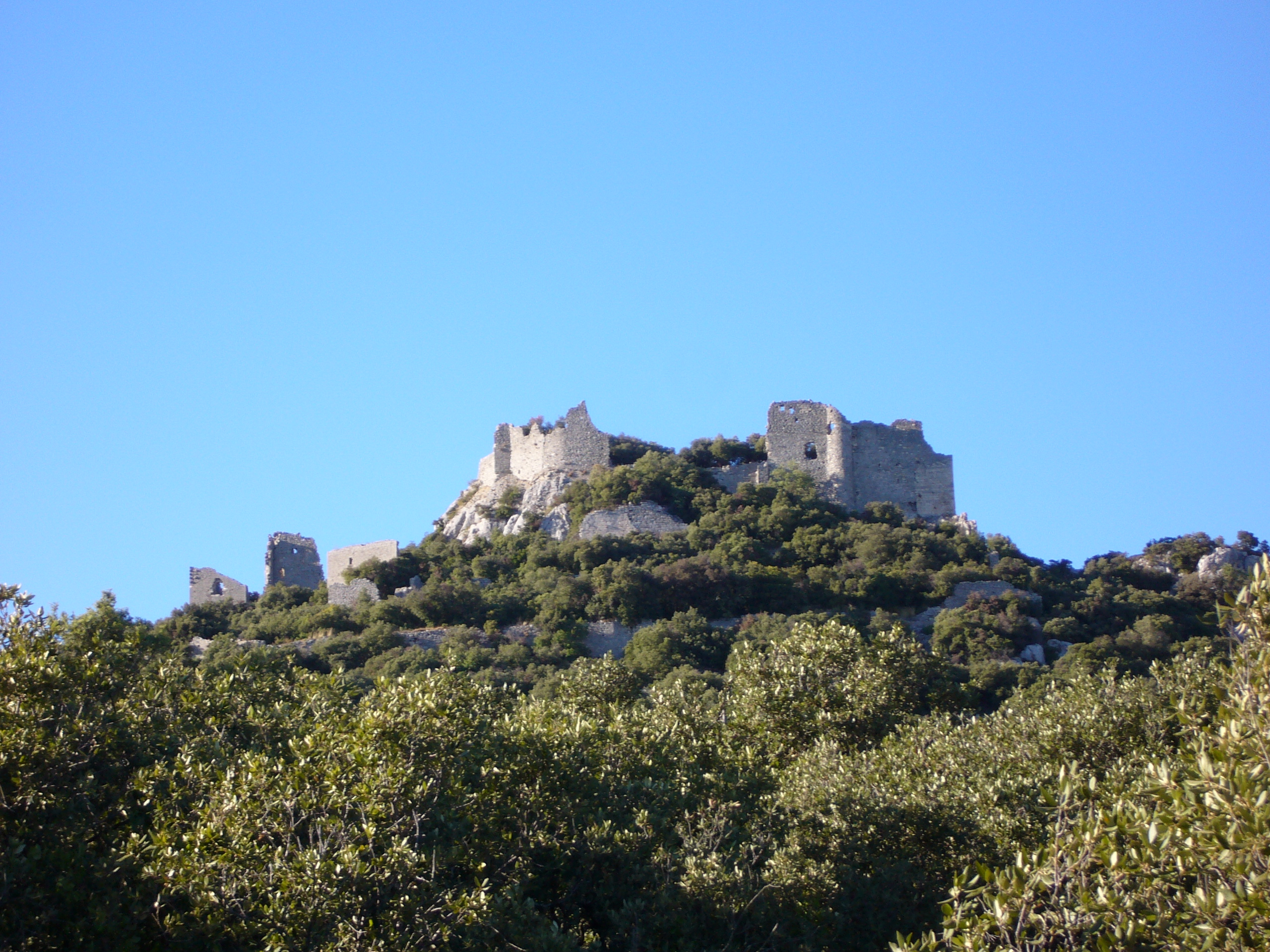 Castle of Montferrand - Pic Saint Loup - Montpellier - Herault - France